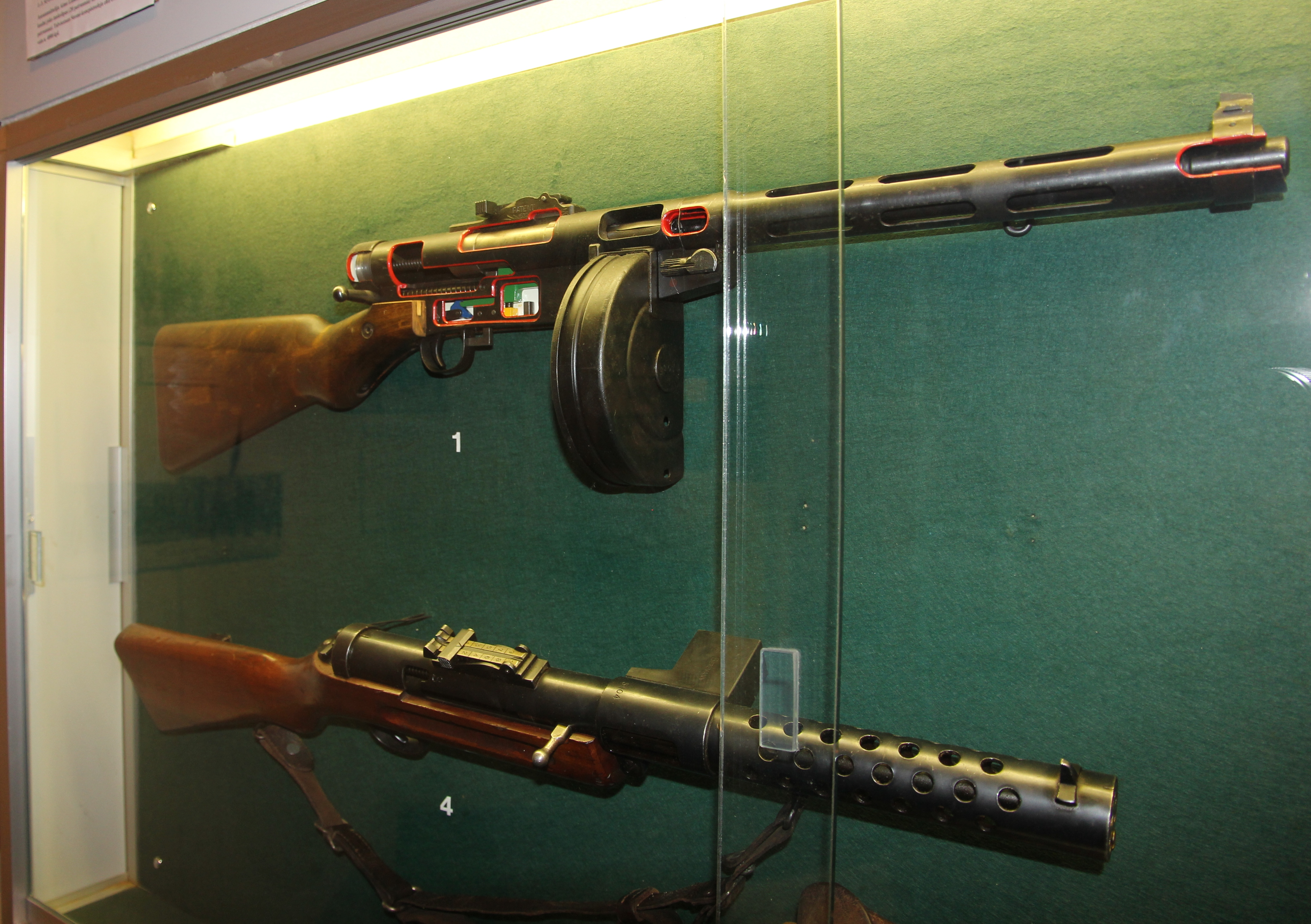 Finnish 9 mm Suomi m/31 (cutaway) and Swiss manufactured 7.65 mm Bergmann MP 18 submachine guns. Photographed in Mikkeli Infantry museum.